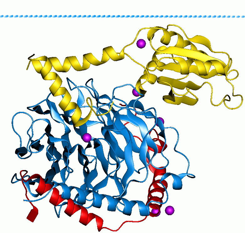 Protein image from OPM database Phosducin- transducin beta-gamma complex. Beta and gamma subunits of G-protein are shown by blue and red, respectively.